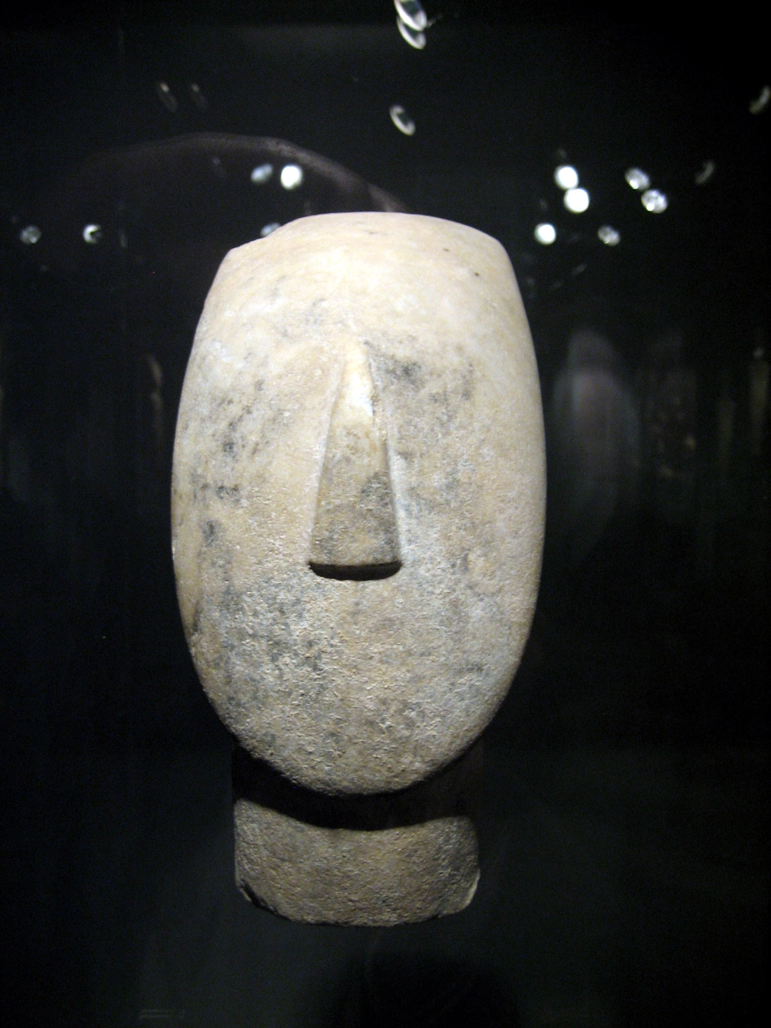 Cycladic figurine, almost life size, 24.8 cm, #284 in the 1968 catalogue